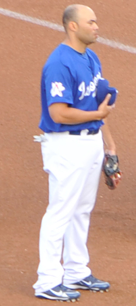 The Kirtland Air Force Base Honor Guard makes its way onto the field as patrons pay respect to the flag for the National Anthem as part of the Military Appreciation Night at the Albuquerque Isotopes baseball game May 21.